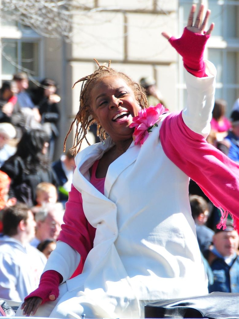 "Disco Diva" Thelma Houston greeting the people in the Cherry Blossom annual Parade in Washington DC